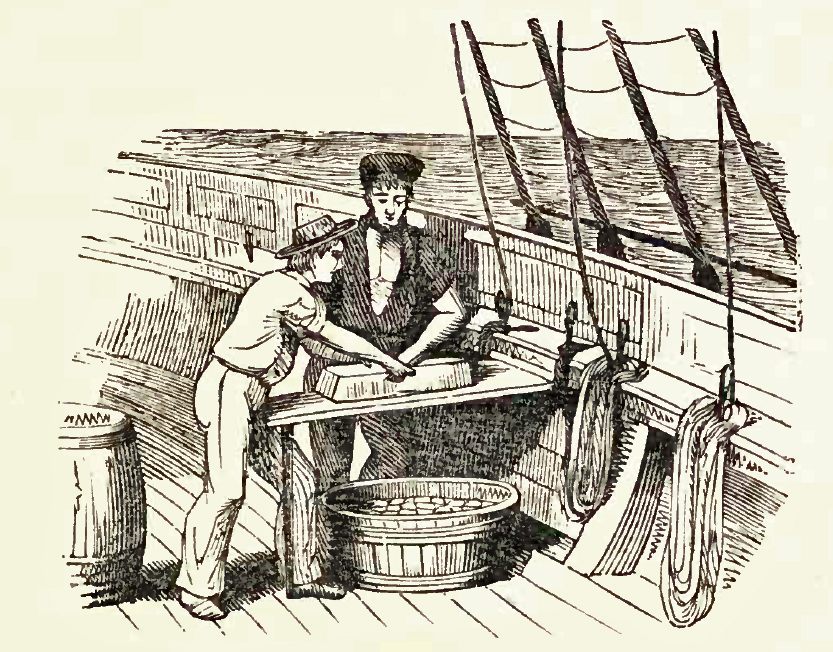 Mincing Whale blubber - illustration.